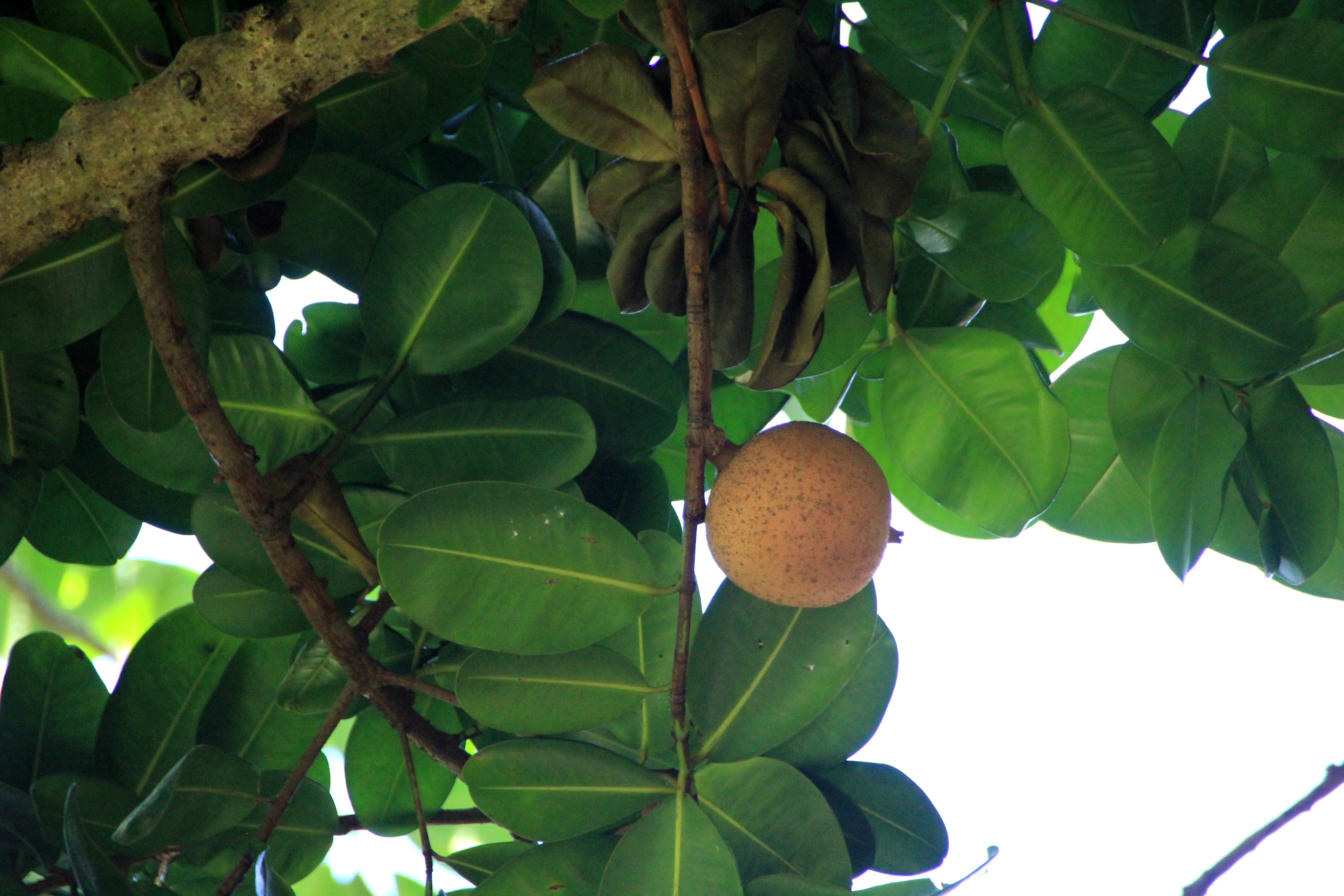 A Mammee apple in the Andromeda Gardens, Barbados.